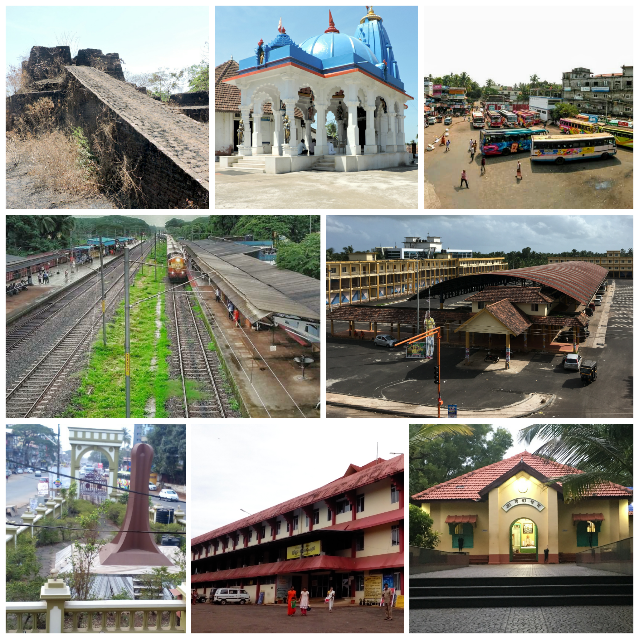 Kanhangad Collage